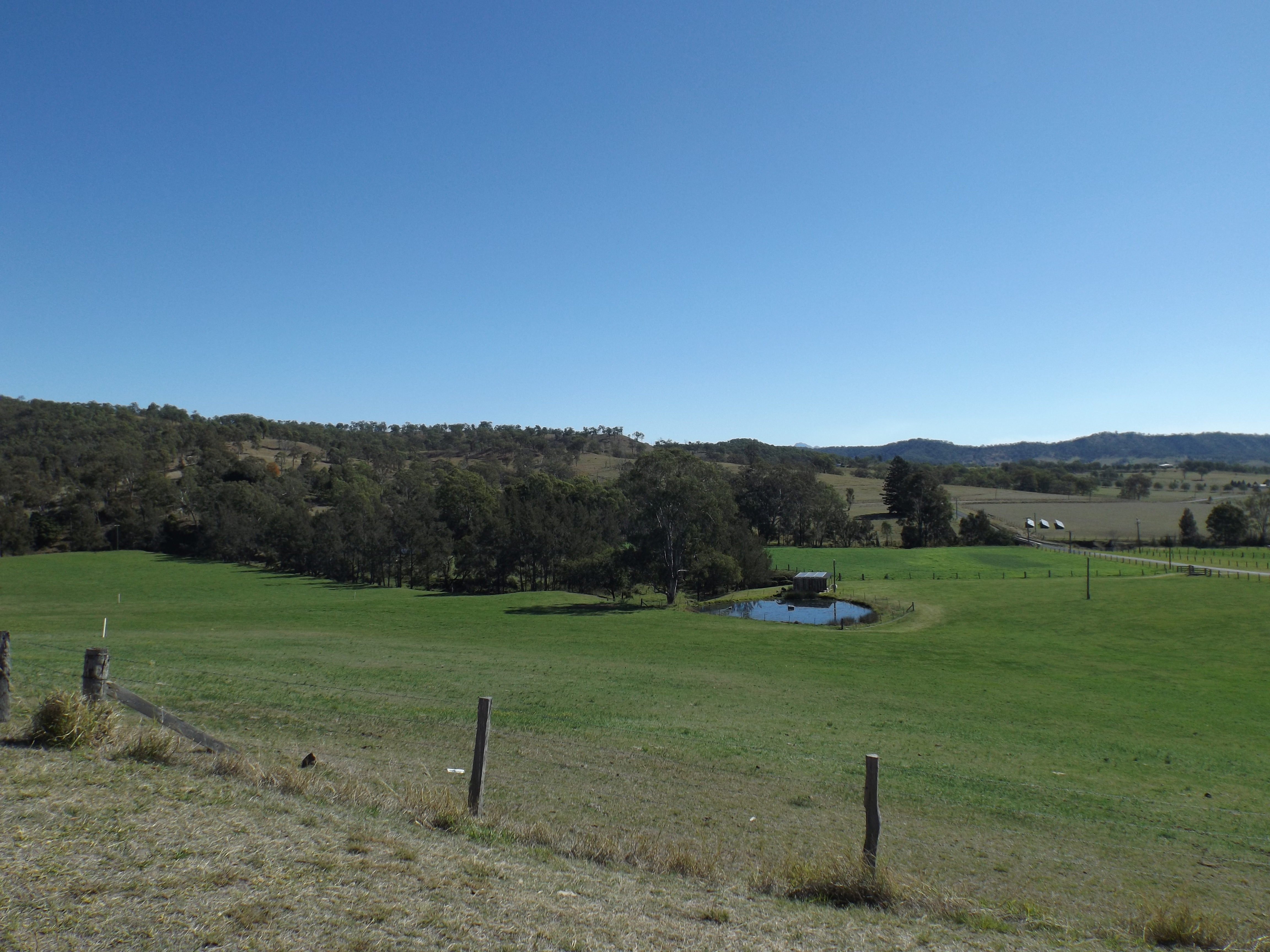 Photo of paddocks at Hillview, Scenic Rim Region, Queensland, Australia.